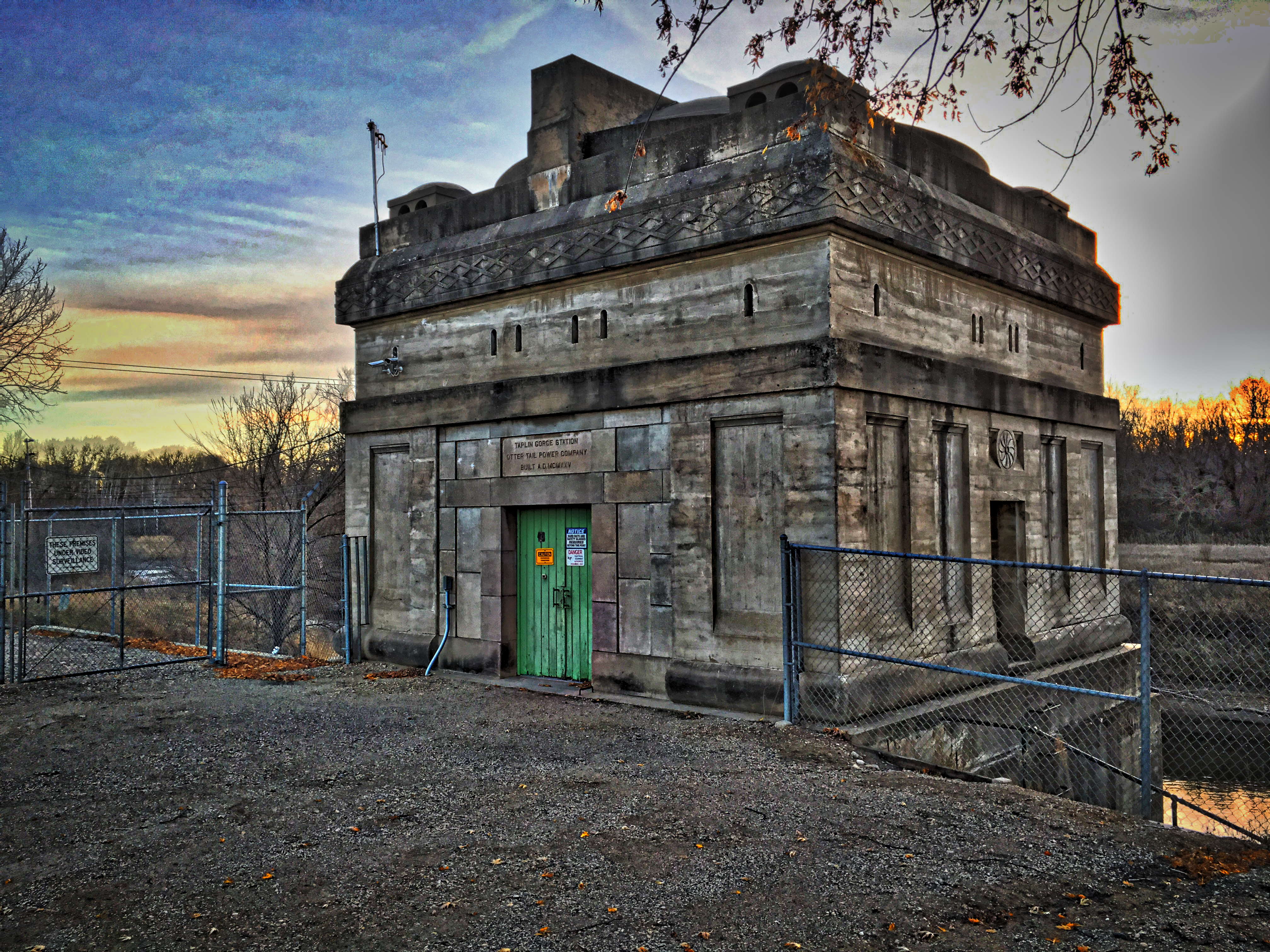 Friberg Township, MN: 46.382245, -96.021164. A 555,000 watt waterwheel is inside which captures energy released from the upstream Taplin Gorge Dam. If you get close, you can hear the waterwheel turning inside.